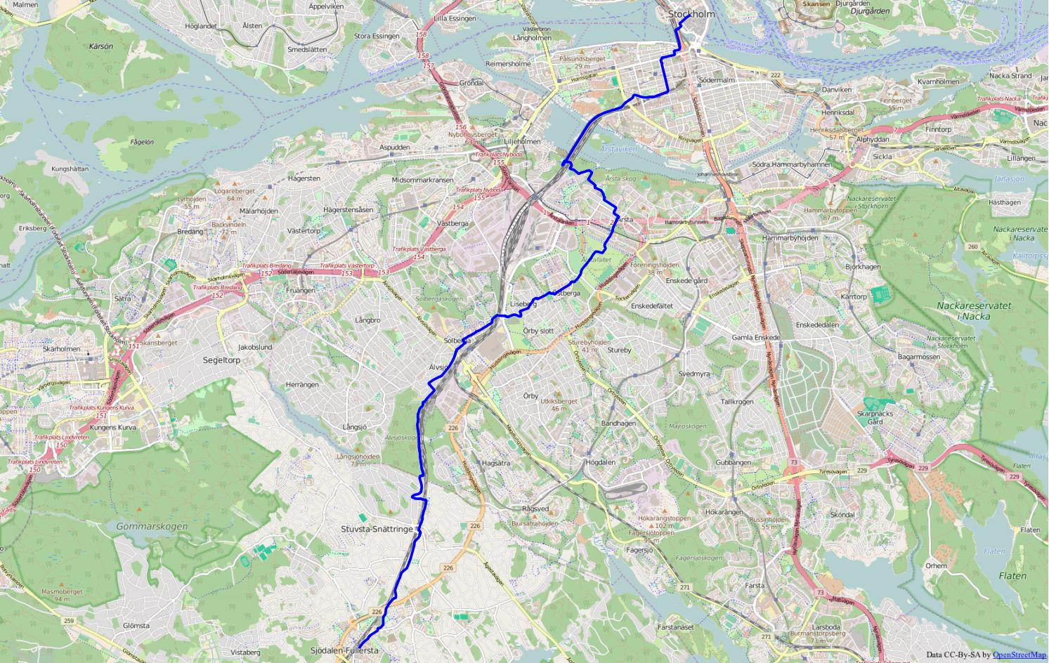 The Huddingestråket hiking trail in Stockholm, Sweden.